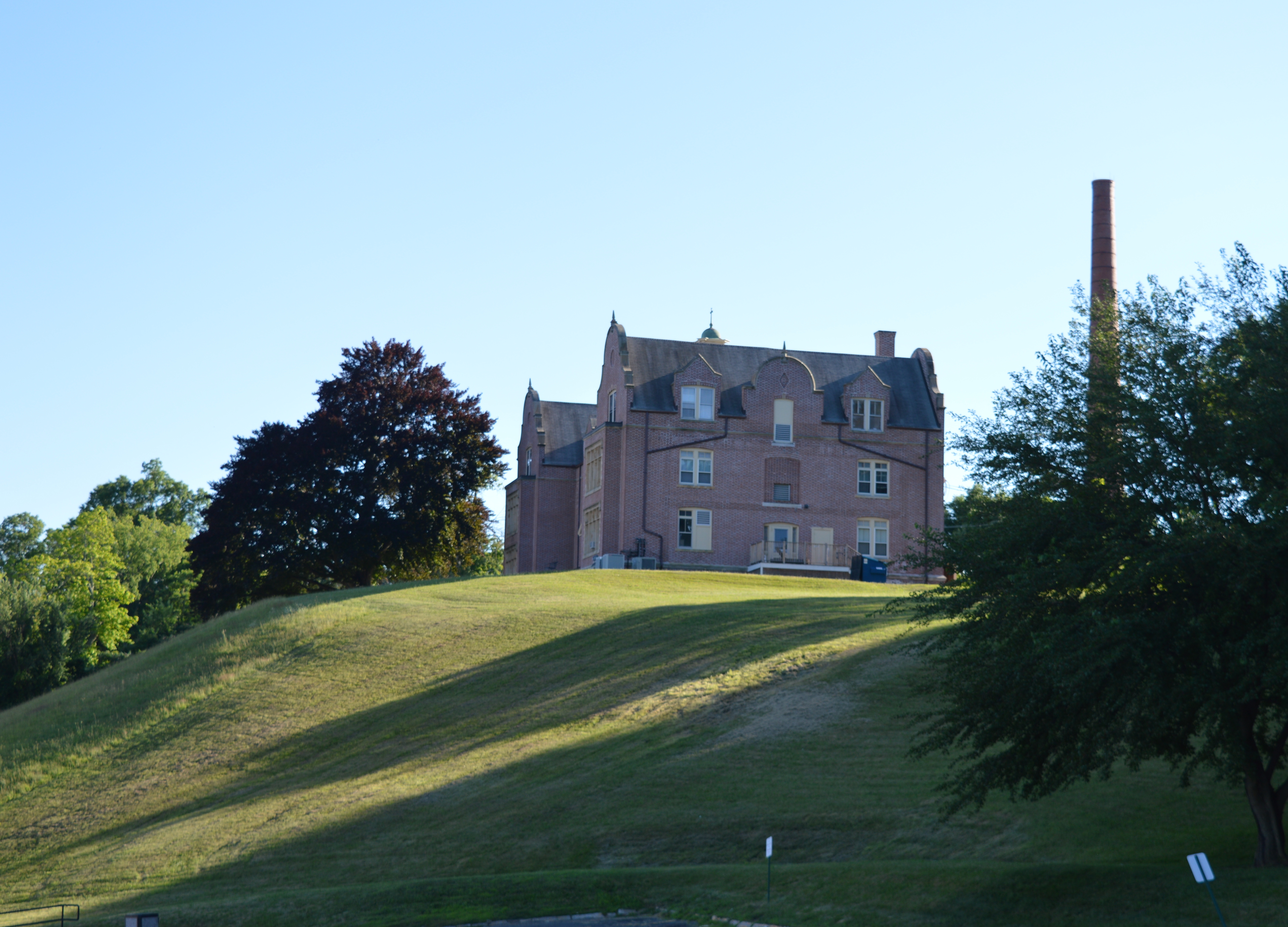 McCleary Manor, operated by Sisters of Providence of Holyoke, at Ingleside, Holyoke, Massachusetts.